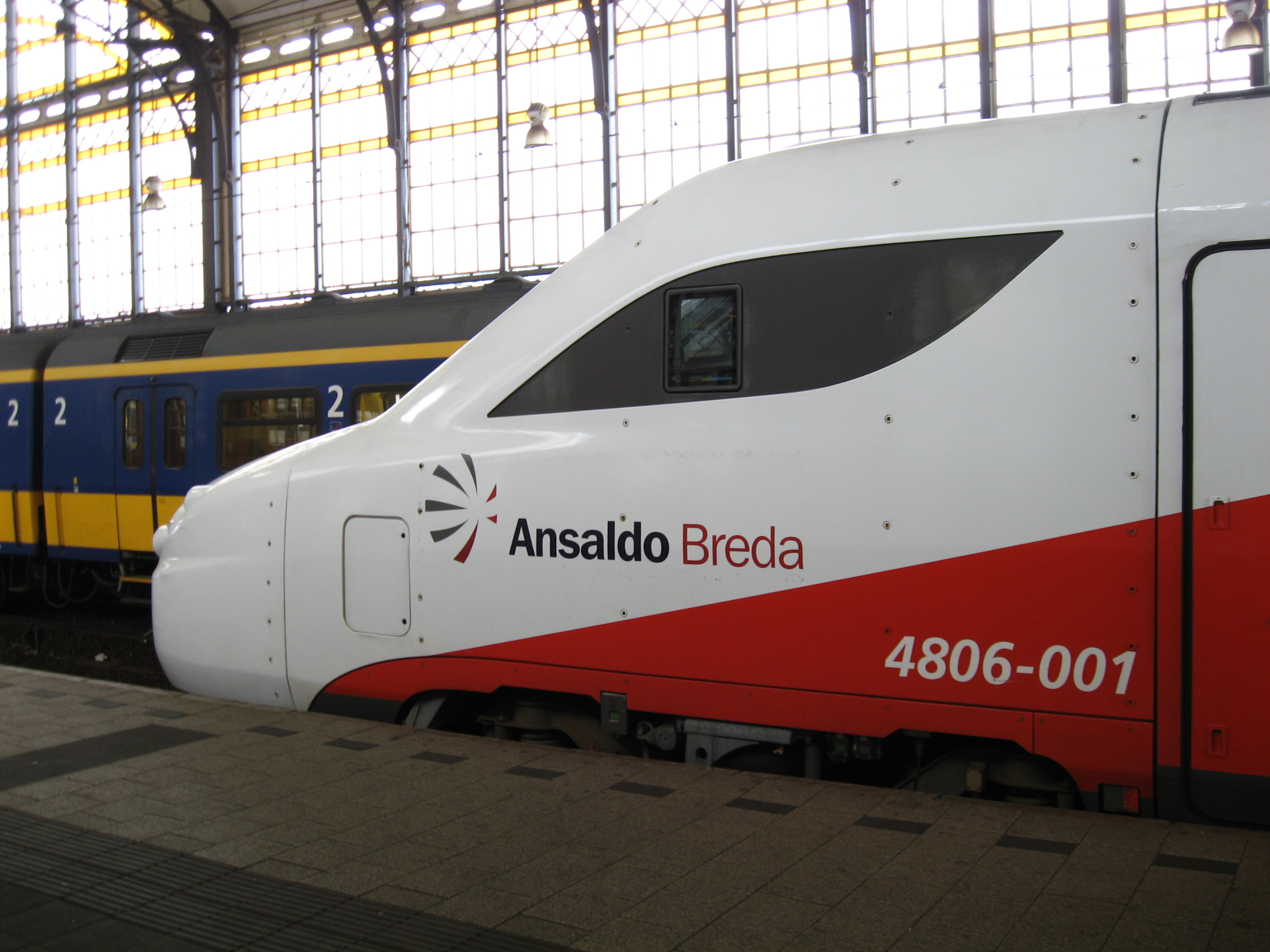 The V250 (Albatros) during a testrun in Den Haag HS.